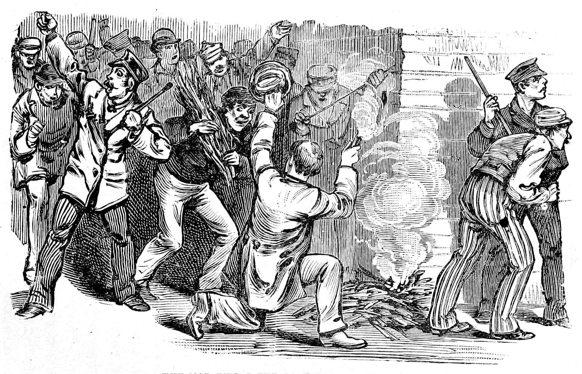 The mob attempting to set fire to Camden Station - Baltimore, MD 1877